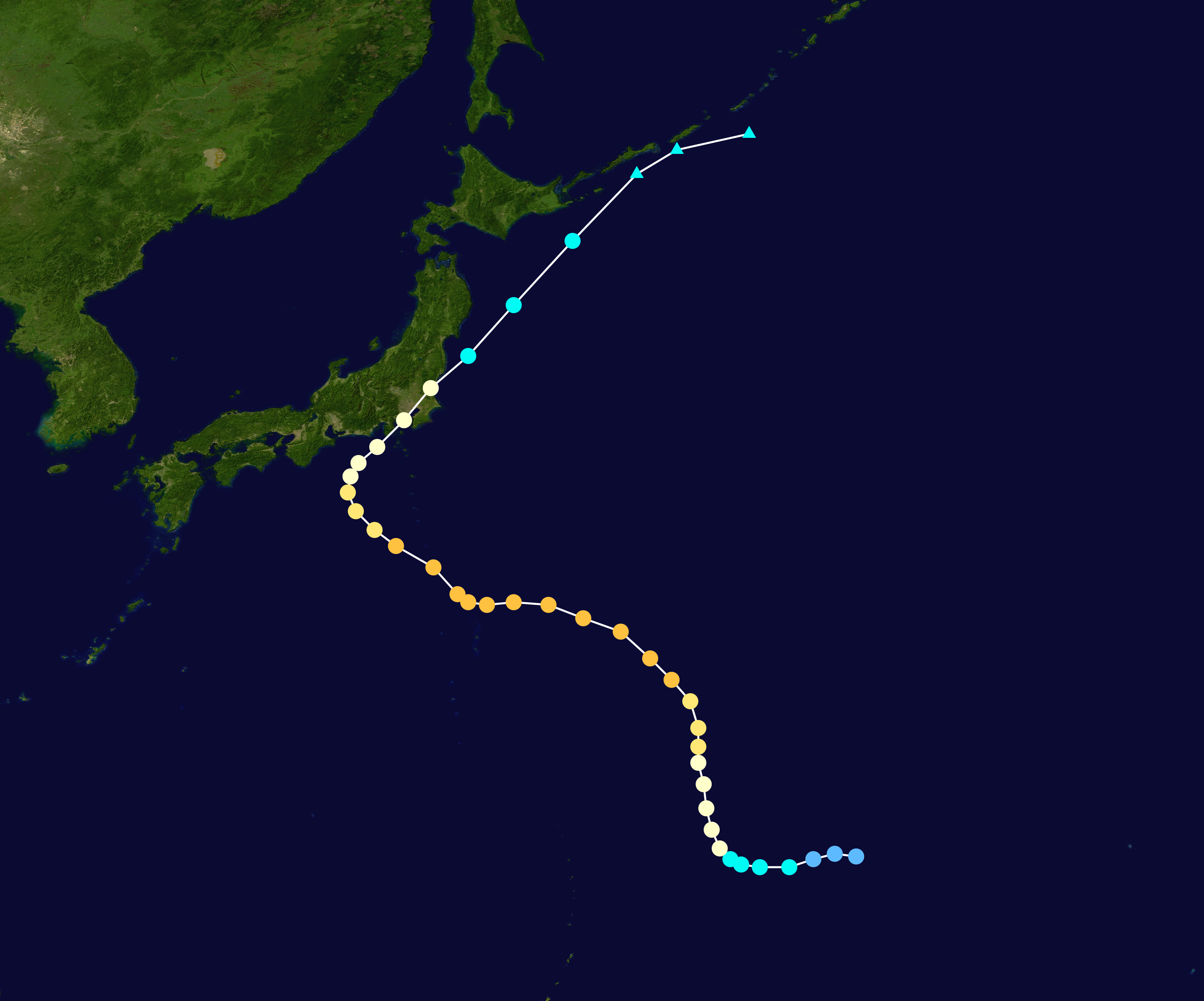 Track map of Typhoon Danas of the 2001 Pacific typhoon season. The points show the location of the storm at 6-hour intervals. The colour represents the storm's maximum sustained wind speeds as classified in the Saffir–Simpson scale (see below), and the shape of the data points represent the nature of the storm, according to the legend below. Saffir–Simpson scale Tropical depression≤38 mph≤62 km/h Category 3111–129 mph178–208 km/h Tropical storm39–73 mph63–118 km/h Category 4130–156 mph209–251 km/h Category 174–95 mph119–153 km/h Category 5≥157 mph≥252 km/h Category 296–110 mph154–177 km/h Unknown Storm type Tropical cyclone Subtropical cyclone Extratropical cyclone / Remnant low / Tropical disturbance / Monsoon depression